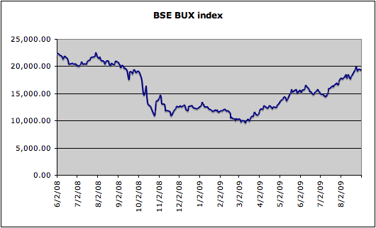 This chart shows the Budapest Stock Exchange BUX index from June 2008 to the end of August 2009